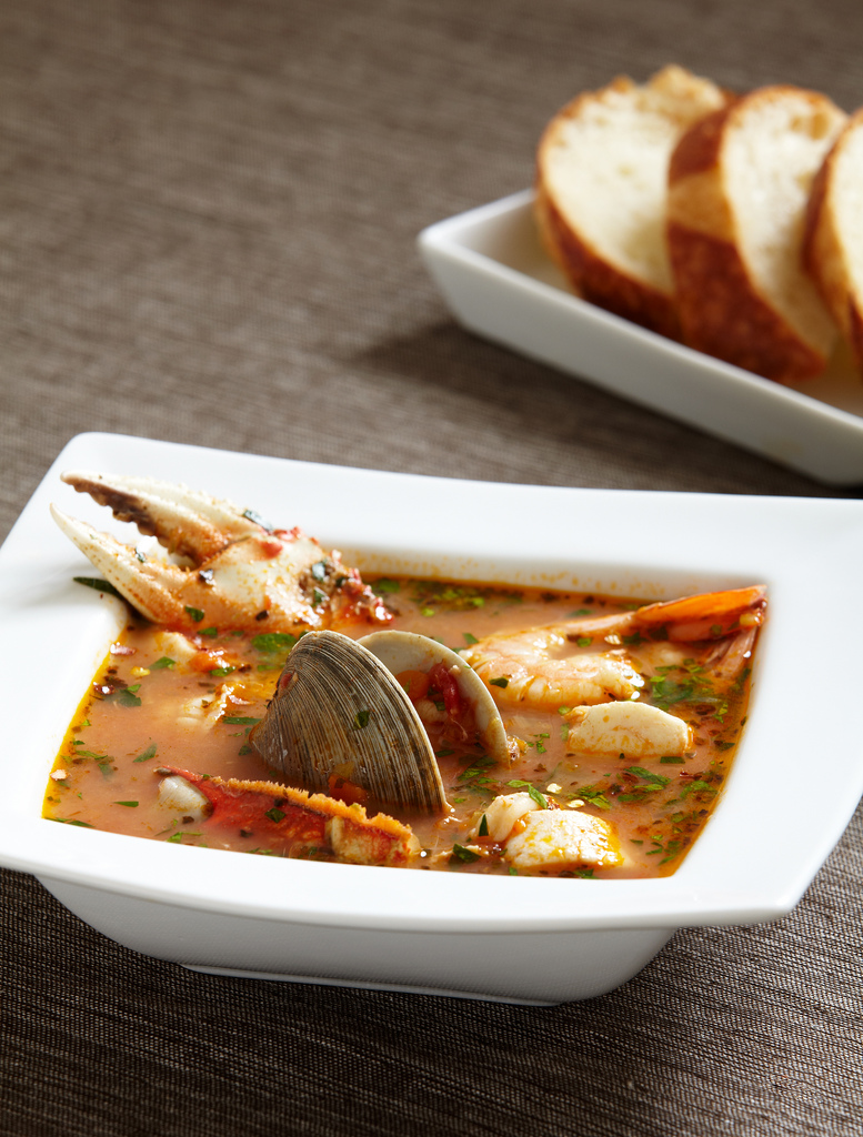 SF_Cioppino_05of9